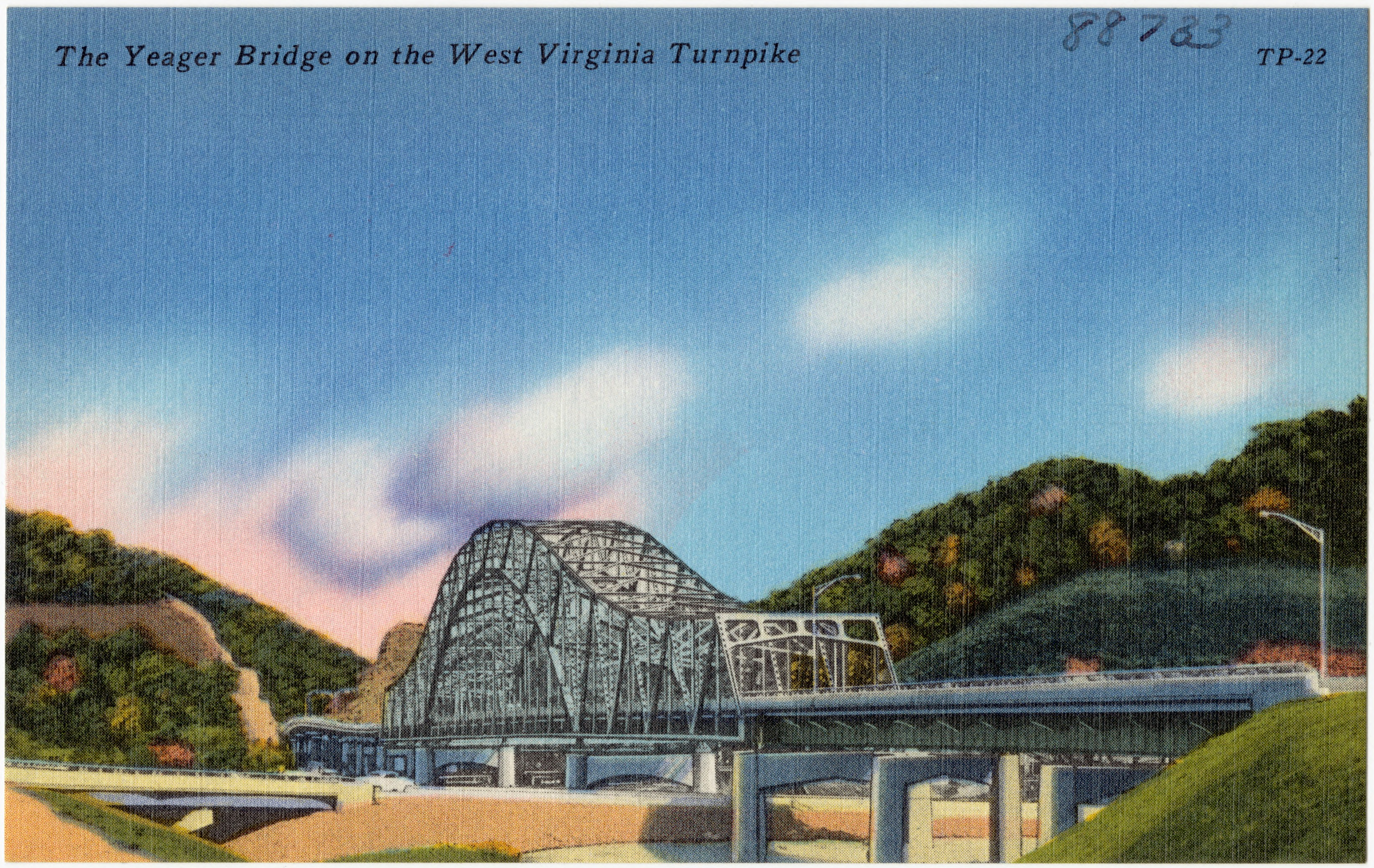 Title: The Yeager Bridge on the West Virginia Turnpike Subjects: Bridges Places: West Virginia Notes: Title from item. Extent: 1 print (postcard) : linen texture, color ; 3 1/2 x 5 1/2 in. Accession #: 06_10_022416